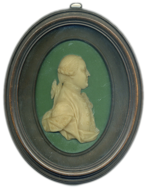 Henry Swinburne, Travel Writer, wax portrait, circa 1760, profile bust right, 178 x 147 mm. Minor restoration to the neck, good very fine.